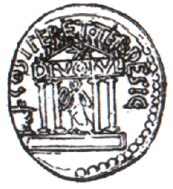 The Augustus Coin struck between 37 BC and 34 BC with a clear representation of Temple of Divus Iulius in the Roman Forum. It is possible to see the Altar (left), the Divine Star that appeared in the sky of Rome in year 44 BC after the death of Caesar probably in a marble reproduction located as decoration in the Tympanum of the Temple, the doors of the temple left open and the statue of Caesar, veiled as Pontifex Maximus, with the lituus augural staff in his right hand.